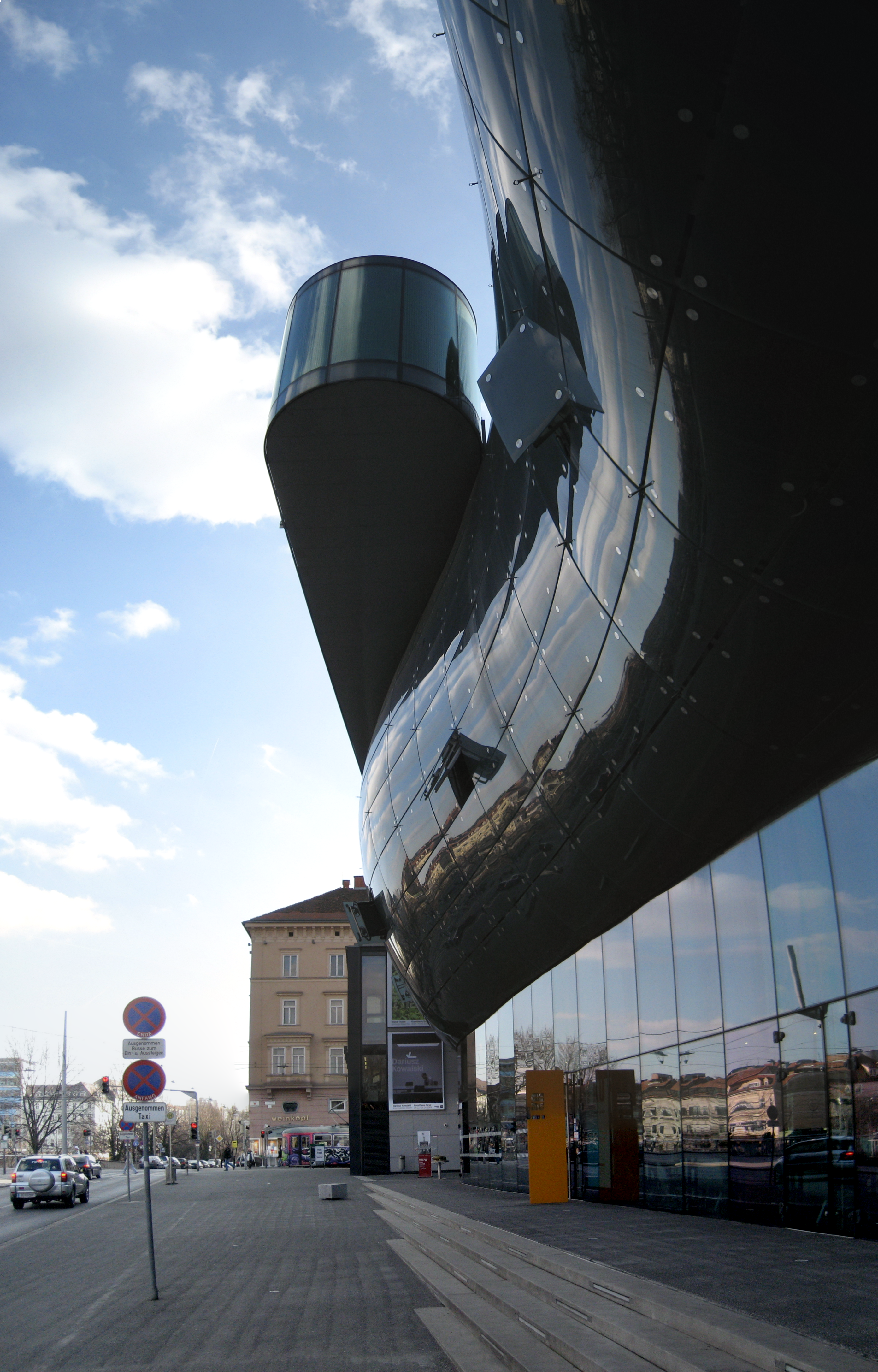 Kunsthaus as seen from street level